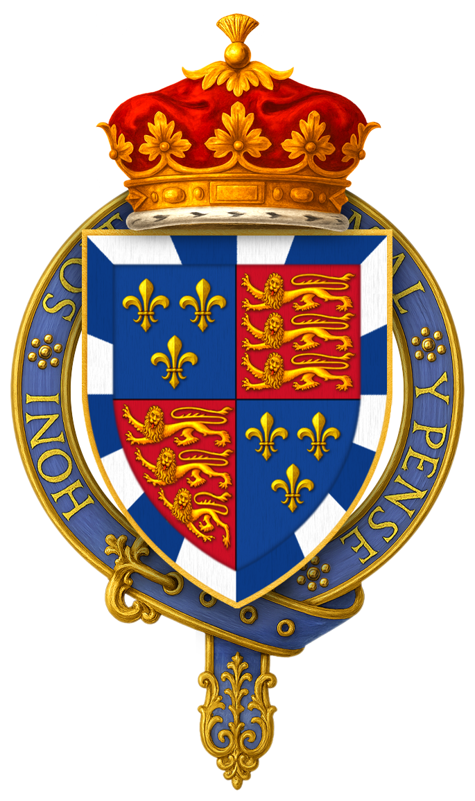 Shield of arms of Henry Somerset, 7th Duke of Beaufort, KG